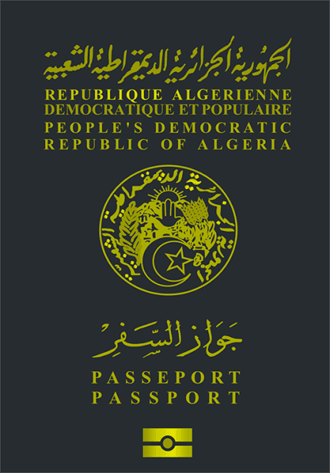 The front cover of the algerian normmal passport